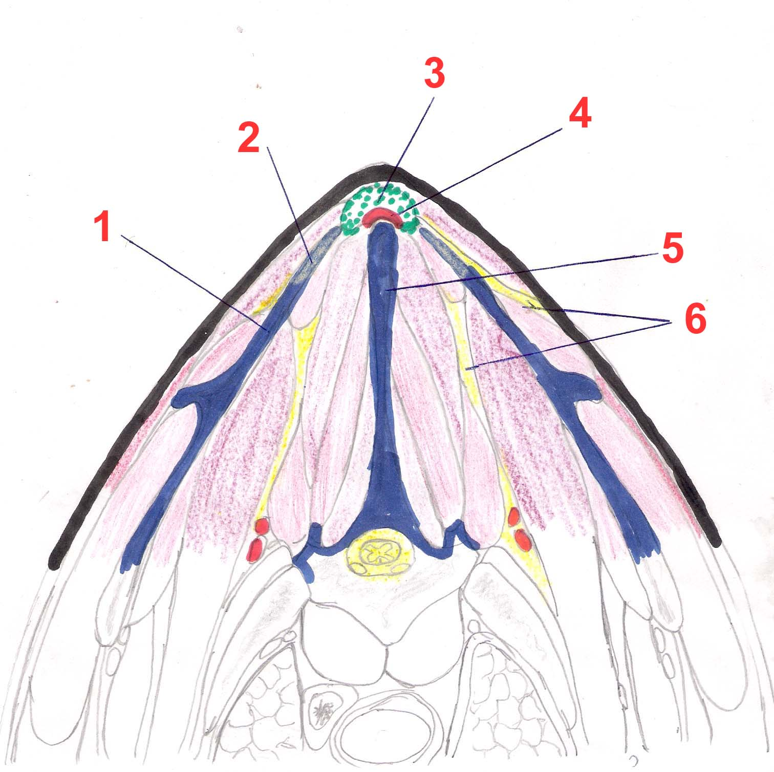 Walon: Antomeye do waerot des tchvås (côpaedje diviè l' cwatrinme cronzoxh do dos). 1. oxhea del sipale; 2. tinroxh do dbout di l' oxhea del sipale; 3. loymint hatelrece (nier-tindon do dzeu do cô); 4. boûsse aiwrece do waerot; 5. Stitchon schinrece do cronzoxh; 6. texhou djondrece